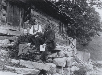 Informant Margit Tveiten (1835-1923), artist Johanna Bugge Berge and folk song and tale collector Rikard Berge